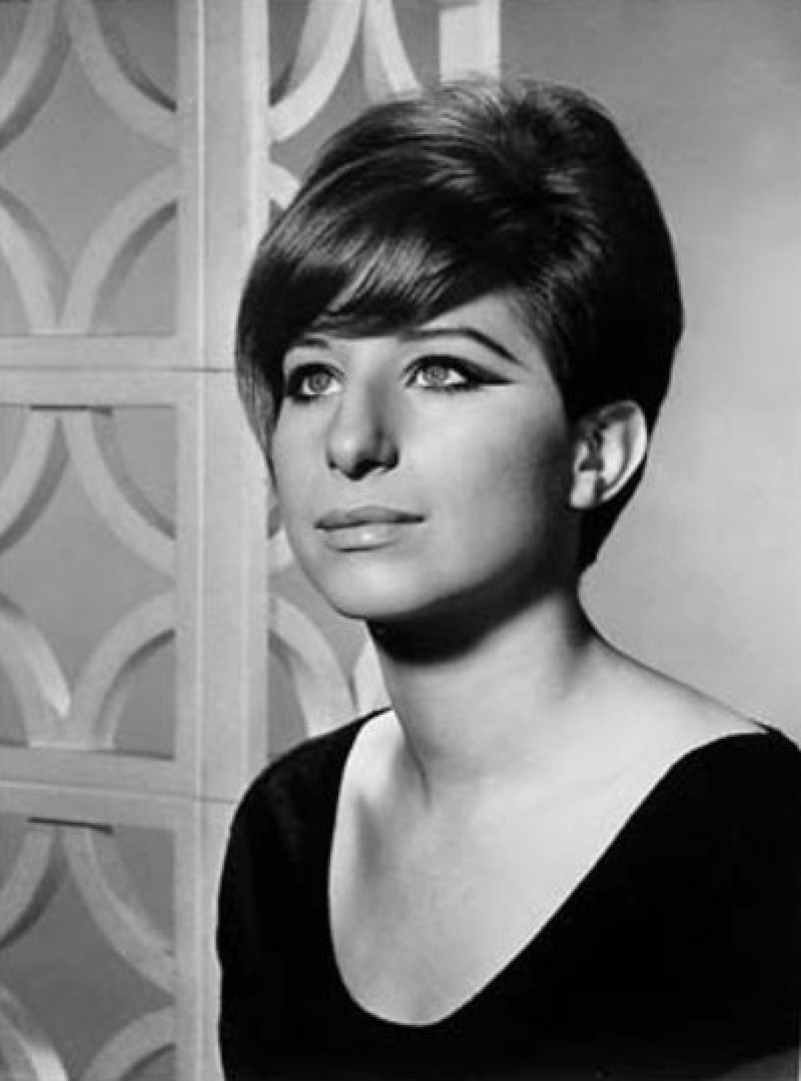 Publicity photo of Barbra Streisand from her first television special My Name is Barbra".